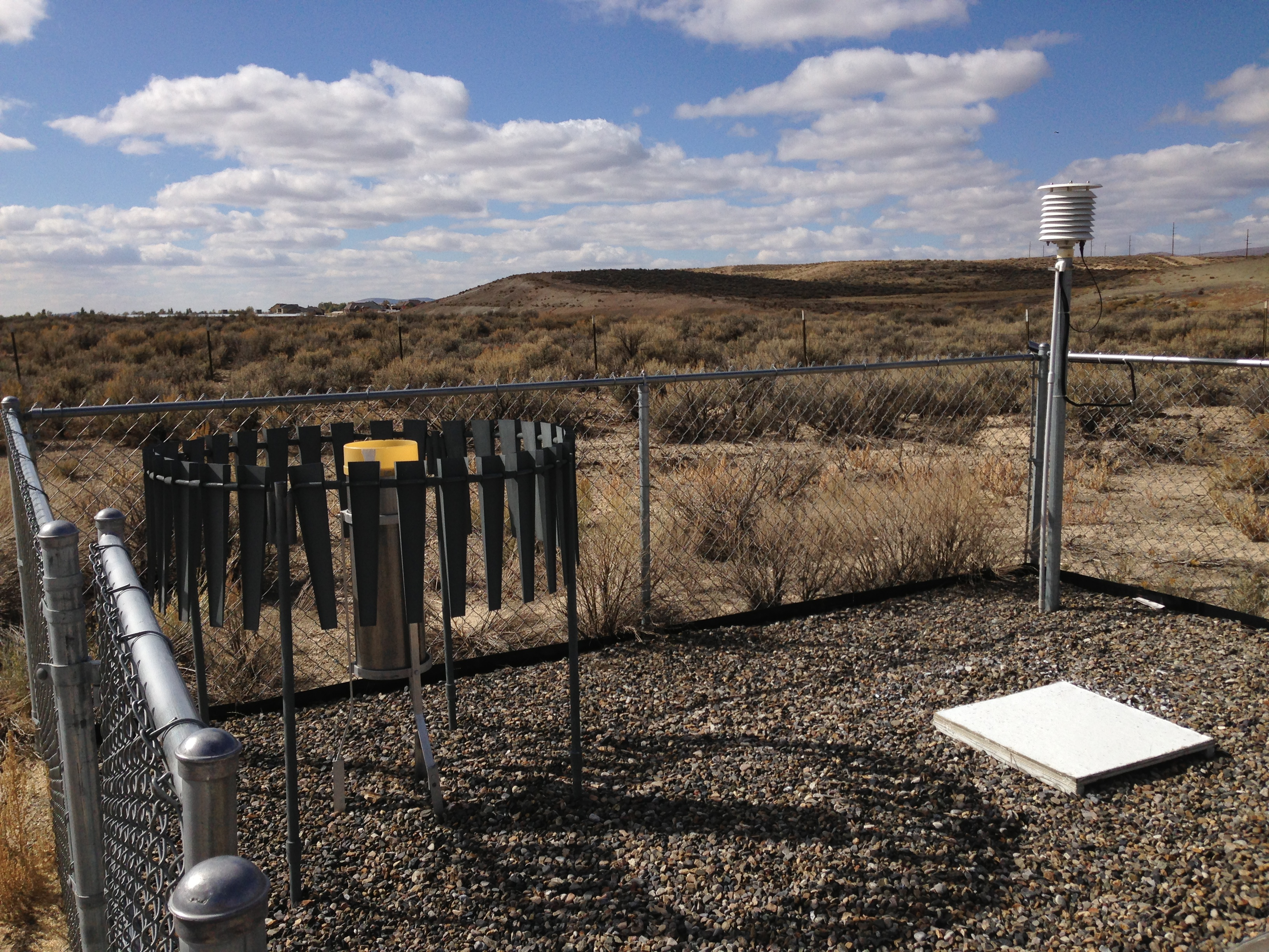 National Weather Service Cooperative Observer site